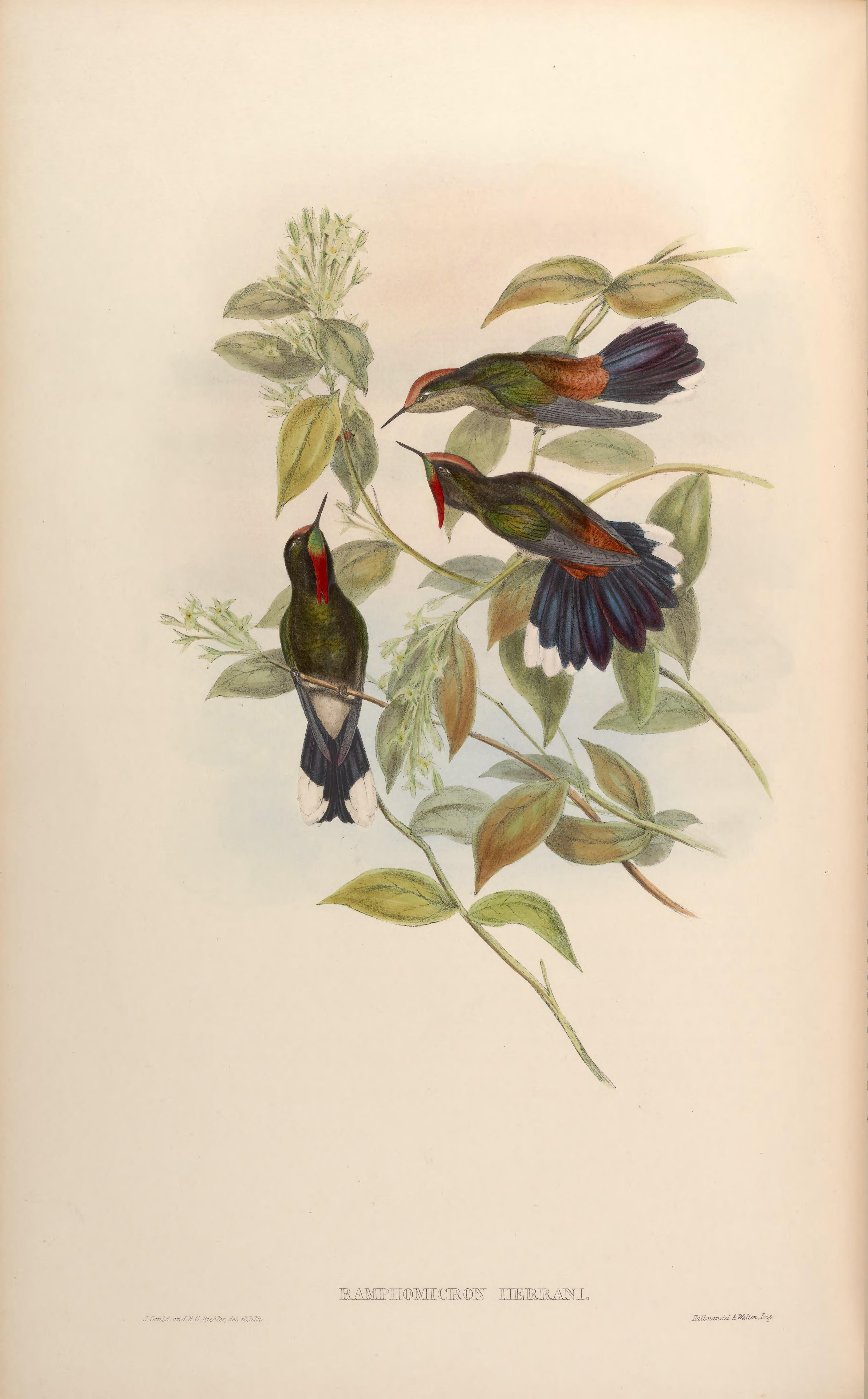 Ramphomicron herrani = Chalcostigma herrani [1]